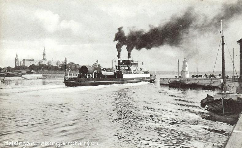 The Danish steamer "Kronprinsesse Louise" in Elsinore harbour (with the famous Kronborg Palace in background, where Shakespeare's "Hamlet" was set.)